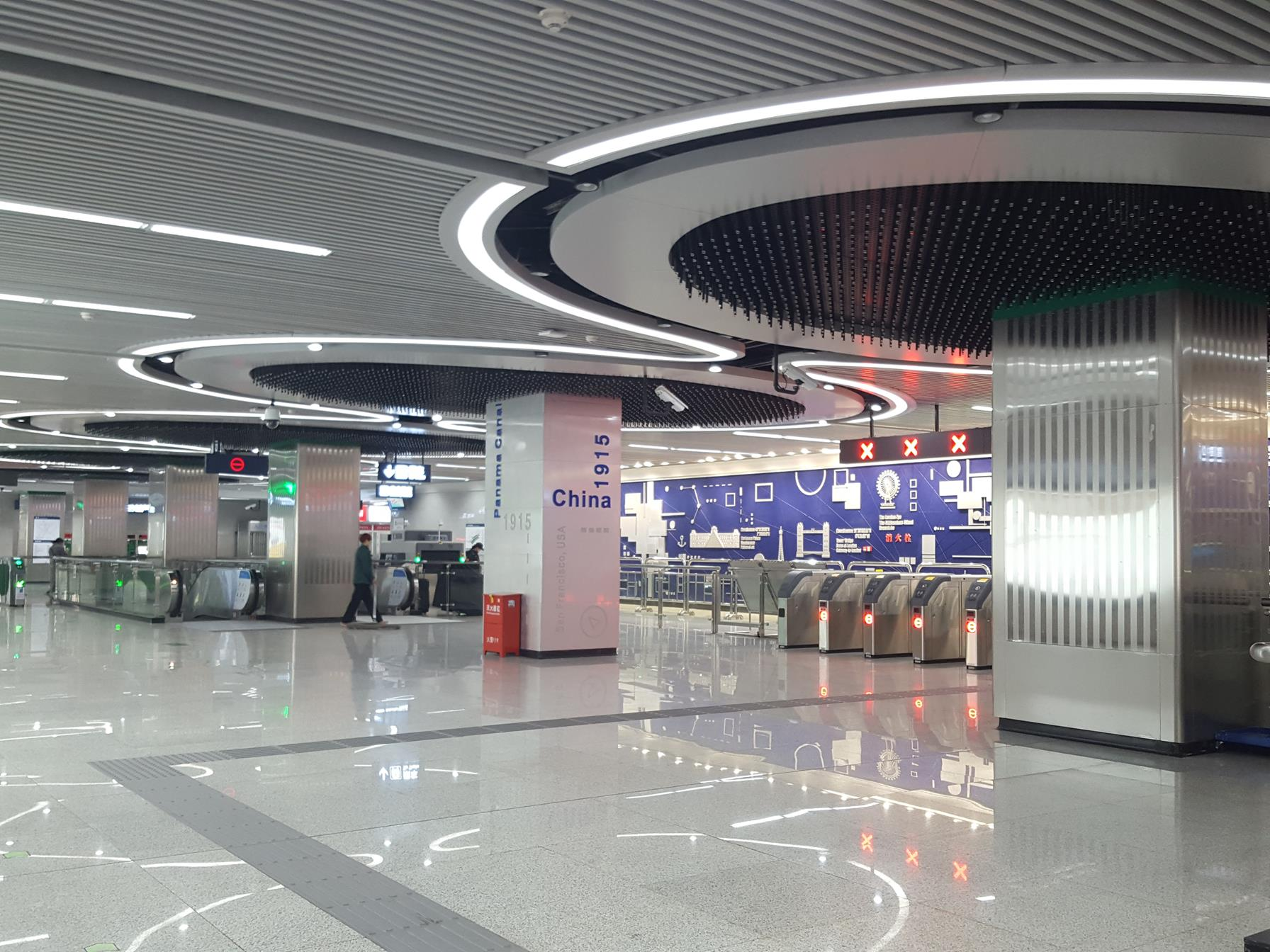 Concourse of South International Expo Centre Station, Wuhan Metro